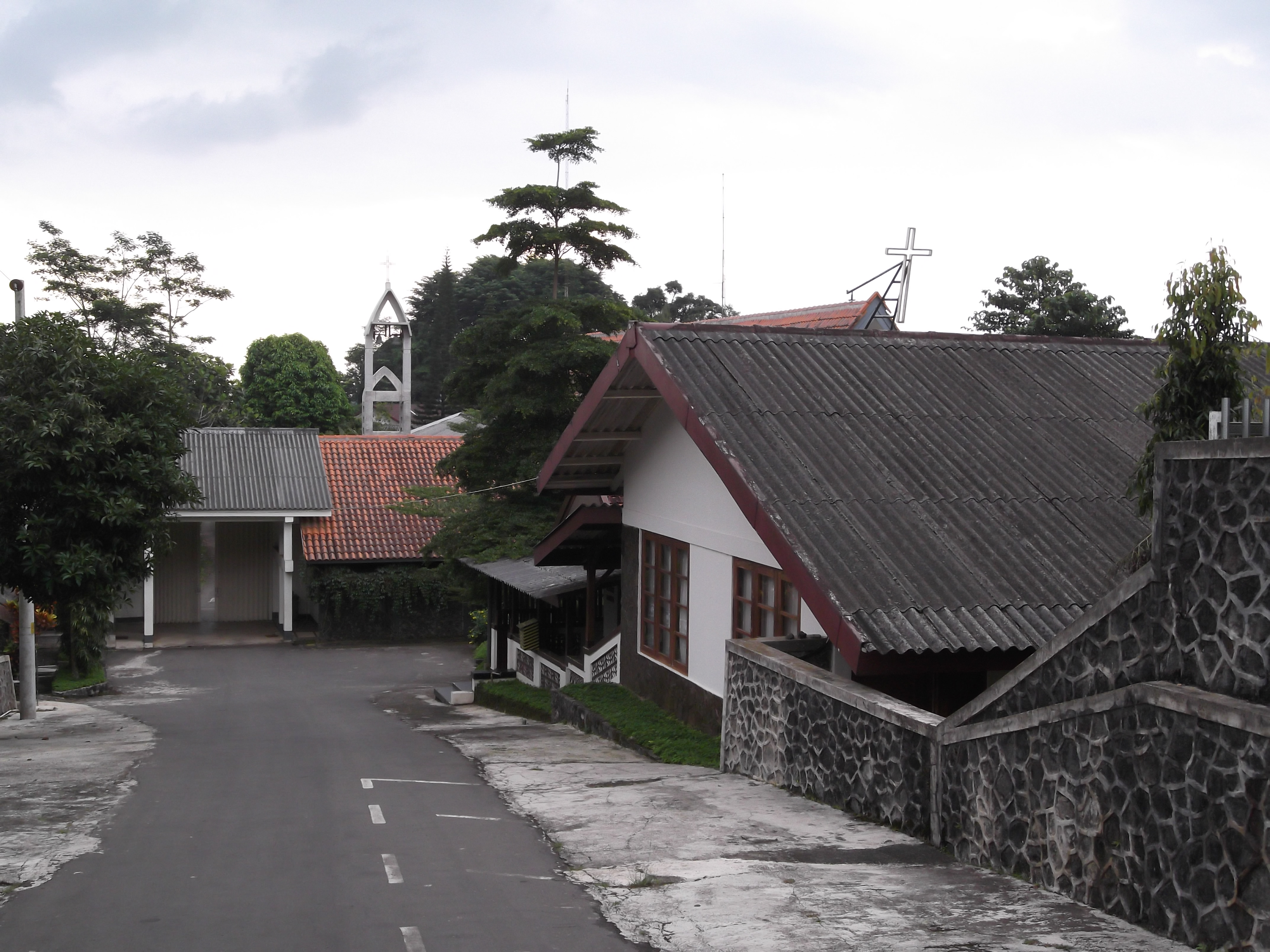 Entrance to the Monastery of Saint Mary Rawaseneng, Temanggung, Indonesia. Gueshouses in the right side of the road; the church located behind them, on the right side of the monastery's gate.